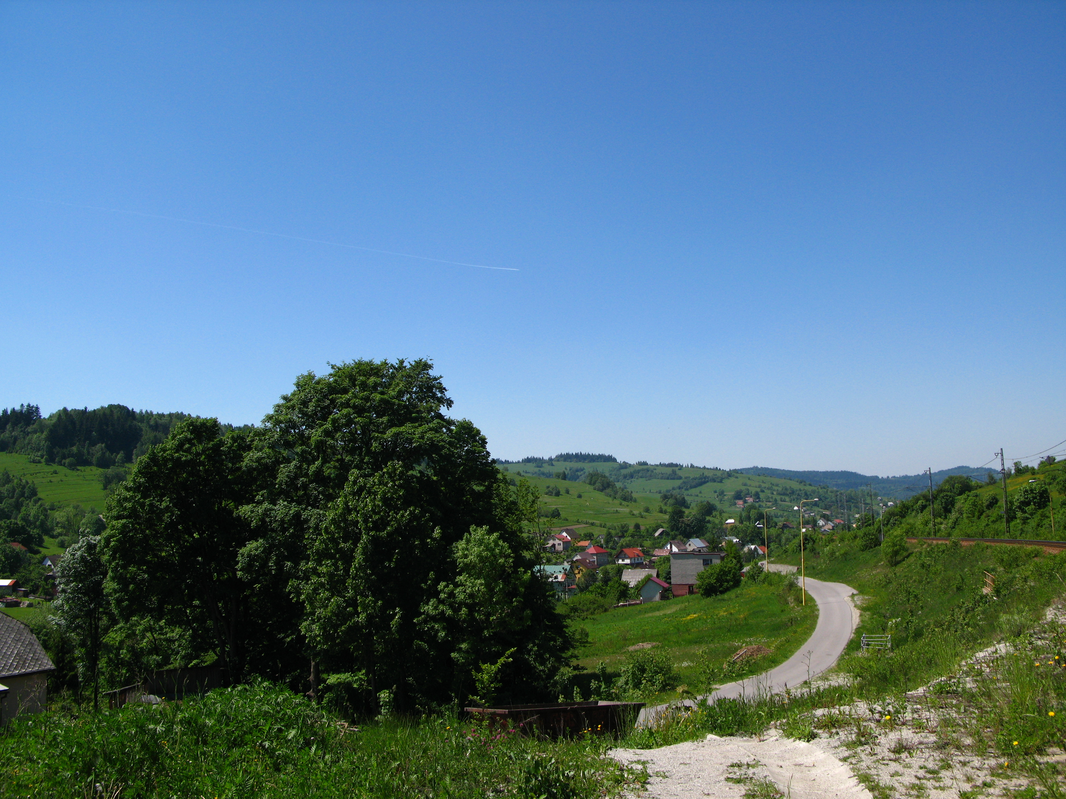 Skalité Serafínov, Slovakia